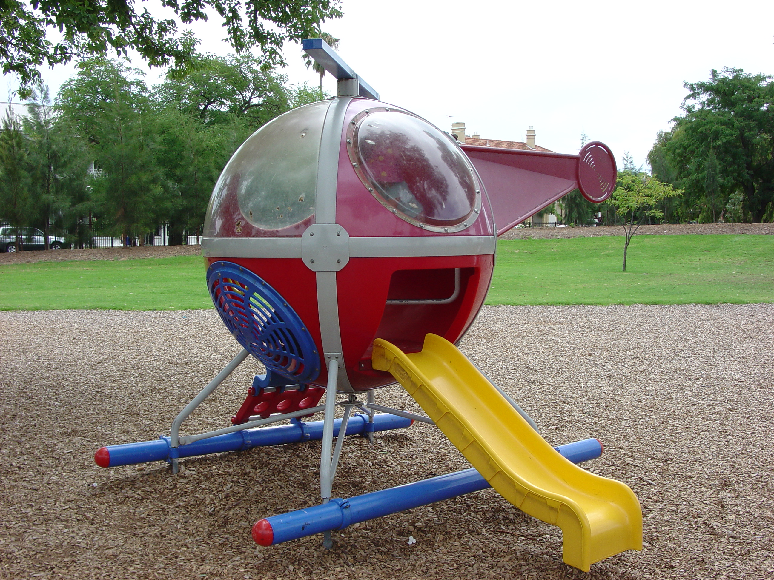 Helicopter, Glover Playground, North Adelaide, Adelaide, Australia. Taken 4:33pm, 4 February 2005 with a Sony Mavica. Taken by Alex Sims.